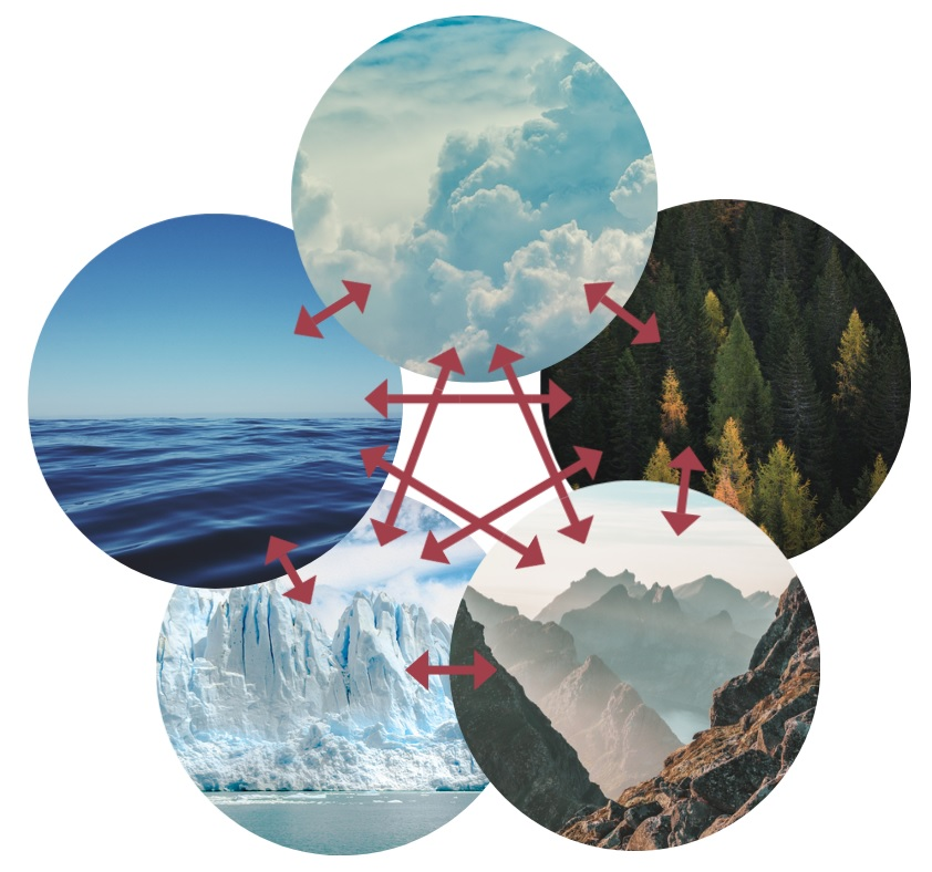 The five components of the climate system. The figure is made using Visme, with all photos from unsplash, which has a free to use copyright. Higher quality unfortunately only available with paid version. Specifically on All photos published on Unsplash can be used for free. You can use them for commercial and noncommercial purposes. You do not need to ask permission from or provide credit to the photographer or Unsplash, although it is appreciated when possible. More precisely, Unsplash grants you an irrevocable, nonexclusive, worldwide copyright license to download, copy, modify, distribute, perform, and use photos from Unsplash for free, including for commercial purposes, without permission from or attributing the photographer or Unsplash. This license does not include the right to compile photos from Unsplash to replicate a similar or competing service.